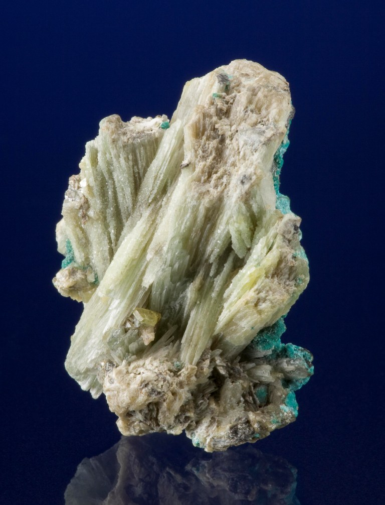 Lanarkite, Susannite, Macphersonite Locality: Susanna Mine (Glennery Scar Vein; Susanna Vein (Scar Vein); Portobello Vein; Humby Vein; Lead Vein), Leadhills, South Lanarkshire, Strathclyde (Lanarkshire), Scotland, UK (Locality at ) Size: 4 x 3 x 2 cm This specimen is absolutely superb for several reasons: its richness, history, and crystal size among them. It is a large cluster of already remarkable lanarkite crystals from the type locality. The lanarkites are draped with a druse of susannite crystals (also type locality) to 3mm - considered extremely rich overall. A small yellow macphersonite crystal is attached at the front (looks like a little yellow wulfenite, center-middle in photo). This specimen is a major classic rarity of the mid to late 1800s, seldom seen in this quality even in the most major Museum collections. The piece was exchanged out of the collection of France's National Museum of Natural History and made its way into the Lindsay and Patricia Greenbank collection (of English and Scottish minerals) by the 1990s. It was bequeathed to the museum in about 1900 as dated by the antique museum accession label in the handwriting of Professor Alfred Lacroix. It had been in the noted collection of Charles Frossard, a noted French collector living in the Pyrenees, by the end of the 1800s. Joe Budd photos.